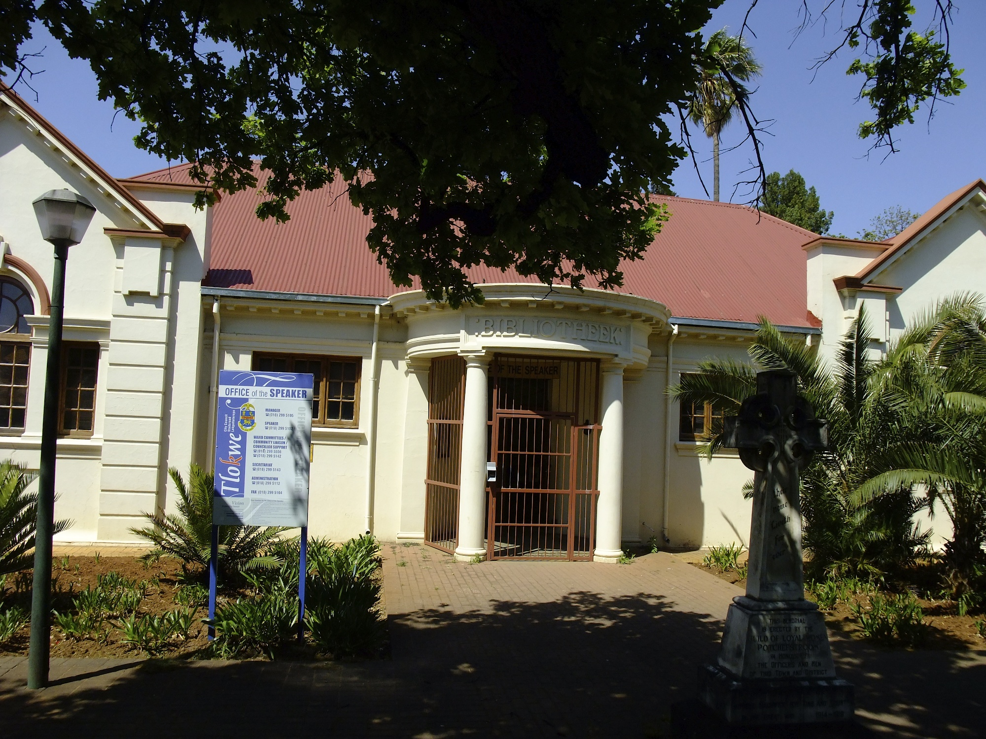 Carnegie Library, Potgieter Street, Potchefstroom (new street name: Walter Sisulu Avenue) This media shows a South African Protected Site with SAHRA file reference 9/2/256/0021.